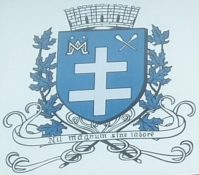 Coat of arms of the city of L'Assomption, Québec, Canada